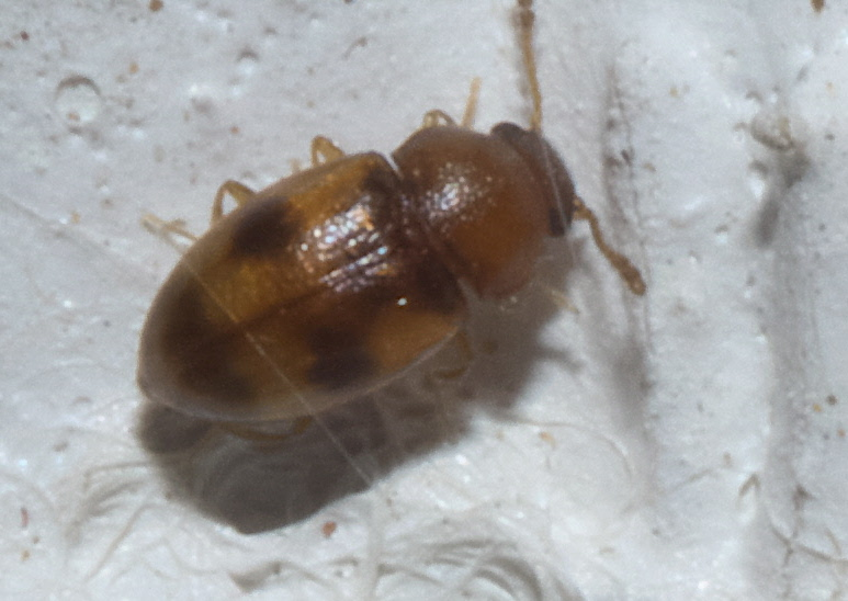 Toramus pulchellus, Family: Pleasing Fungus Beetles, Size: 1.6 mm, ID Confidence: 98